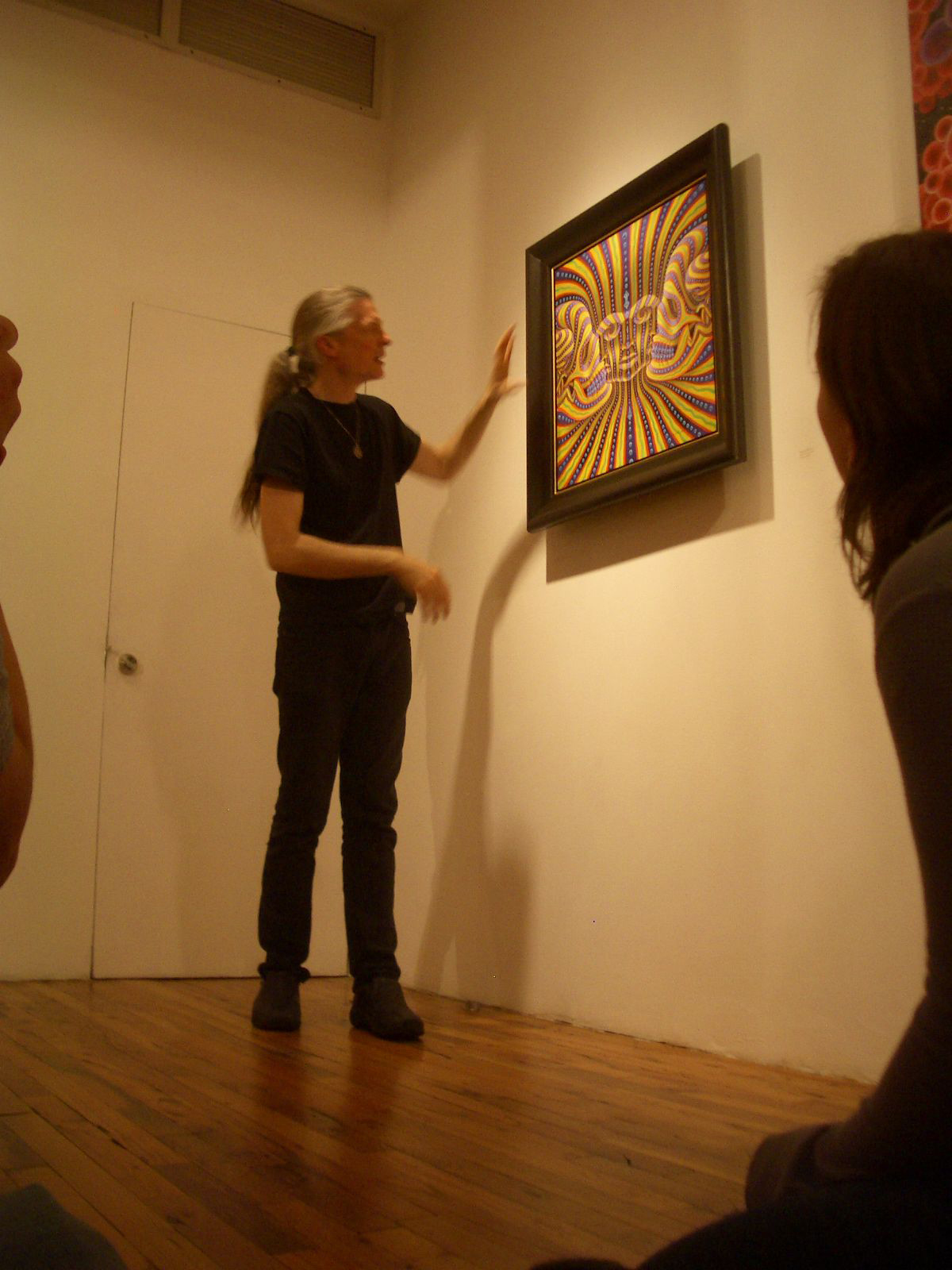 Alex Grey explaining his artwork